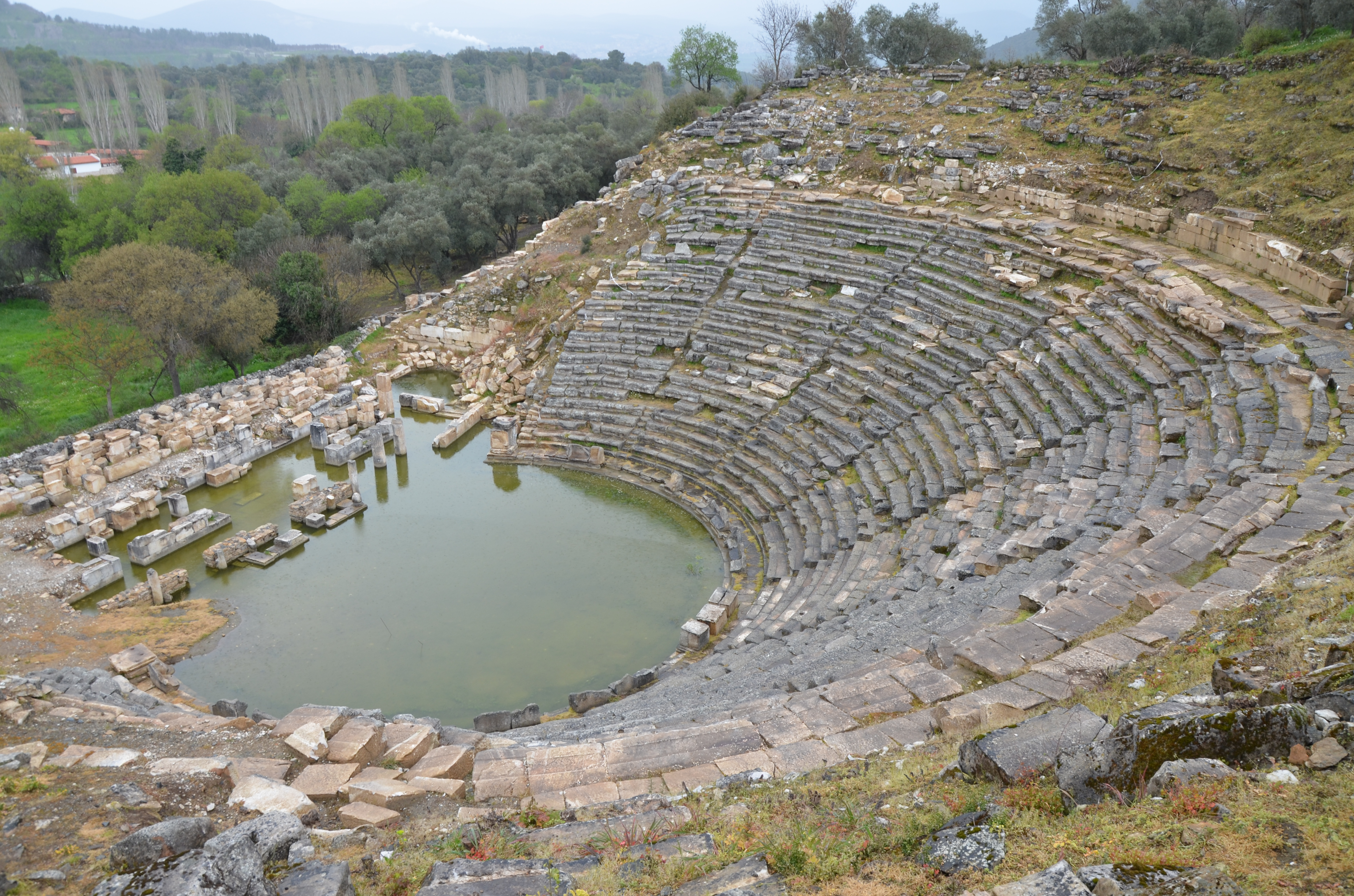 The theatre, erected in the Hellenistic period in the north slope of the south hill, its capacity was approximately 10,000 spectators, Caria, Turkey